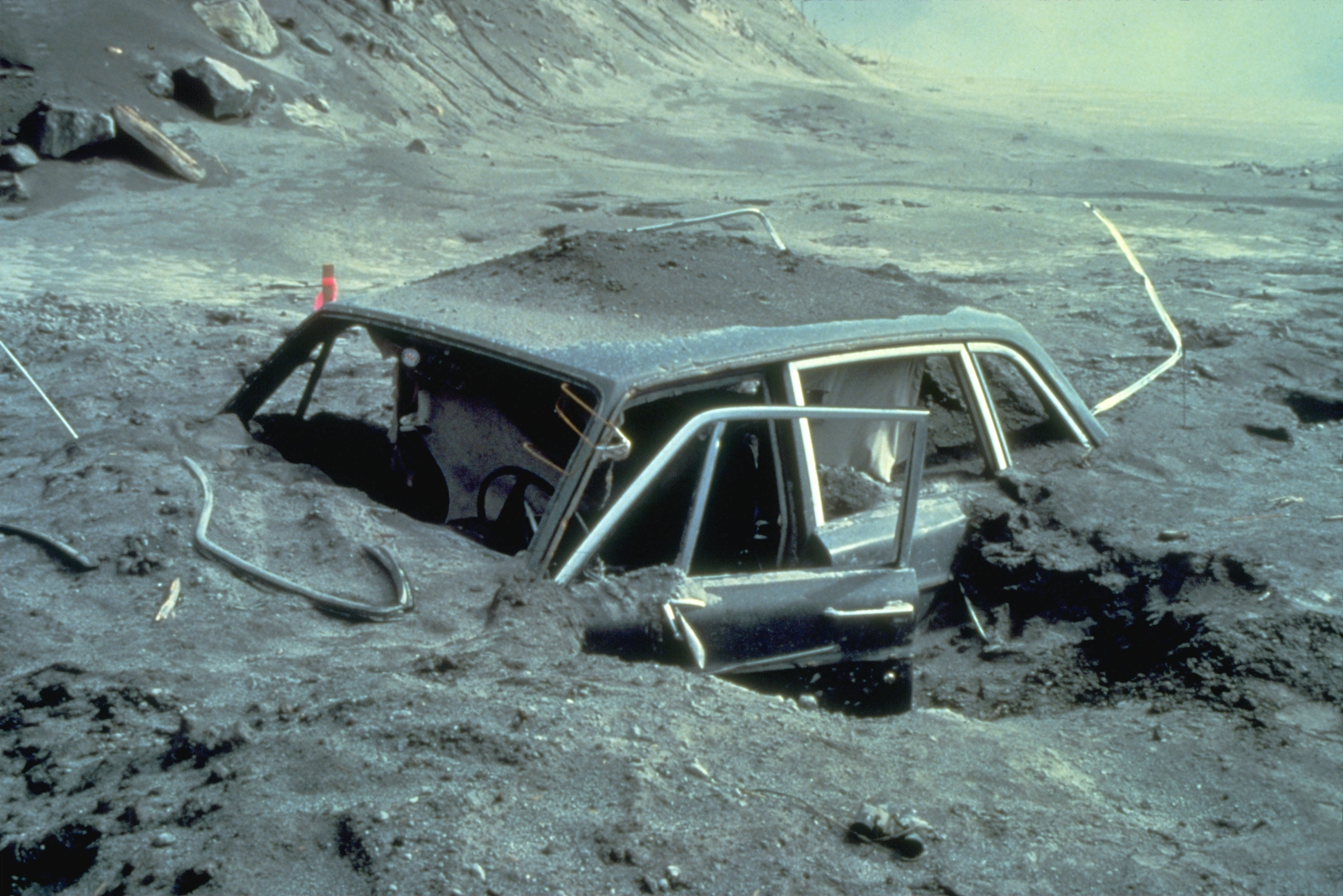 Car after Mount St. Helens 1980 Eruption. Reid Blackburn's (photographer, National Geographic, Vancouver Columbian) car, about 10 miles from Mount St. Helens.